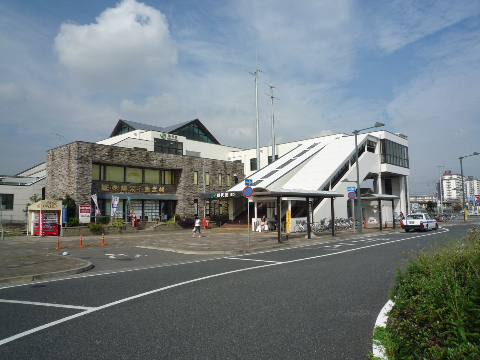 JR常磐線藤代駅南口（Fujishiro station South exit）